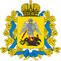 Arkhangelsk oblast, coat of arms (2003)